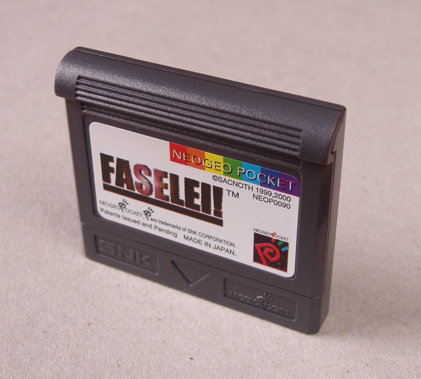 A Neo Geo Pocket Color cart for the game Faselei!.